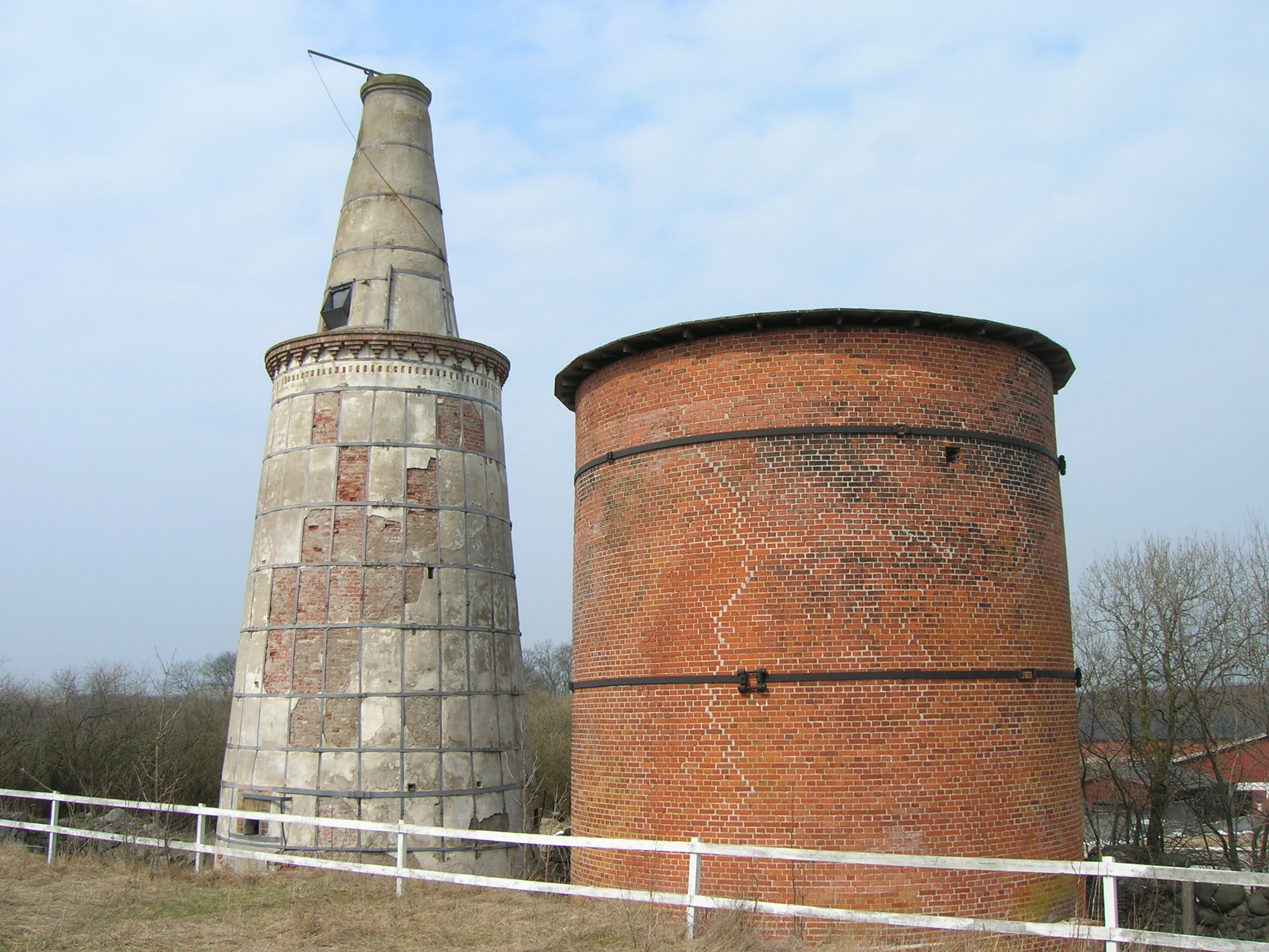 "Adam and Eve", two lime kilns outside Bjärsjölagård in Sjöbo Municipality built in 1865 and the early 20th century.